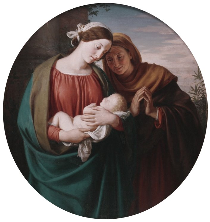 Madonna and Child by Adolf Friedrich Georg Wichmann, oil on canvas, 45 in. x 32 in. (114.3 cm x 81.28 cm), Crocker Art Museum